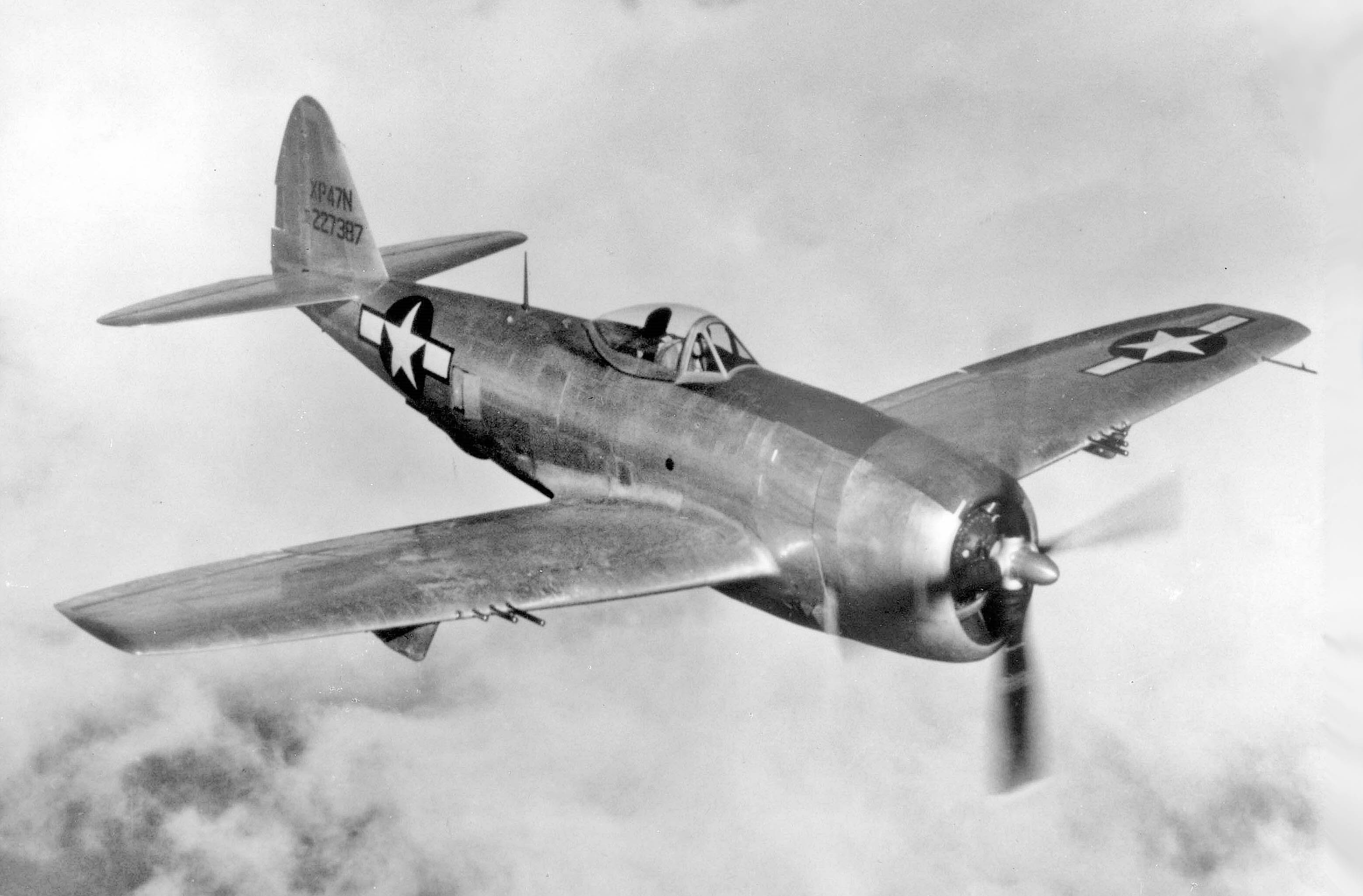 Republic P-47N Thunderbolt, Thunderbolt flew its first combat mission--a sweep over Western Europe. Used as both a high-altitude escort fighter and a low-level fighter-bomber, the P-47 quickly gained a reputation for ruggedness. Its sturdy construction and air-cooled radial engine enabled the Thunderbolt to absorb severe battle damage and keep flying.